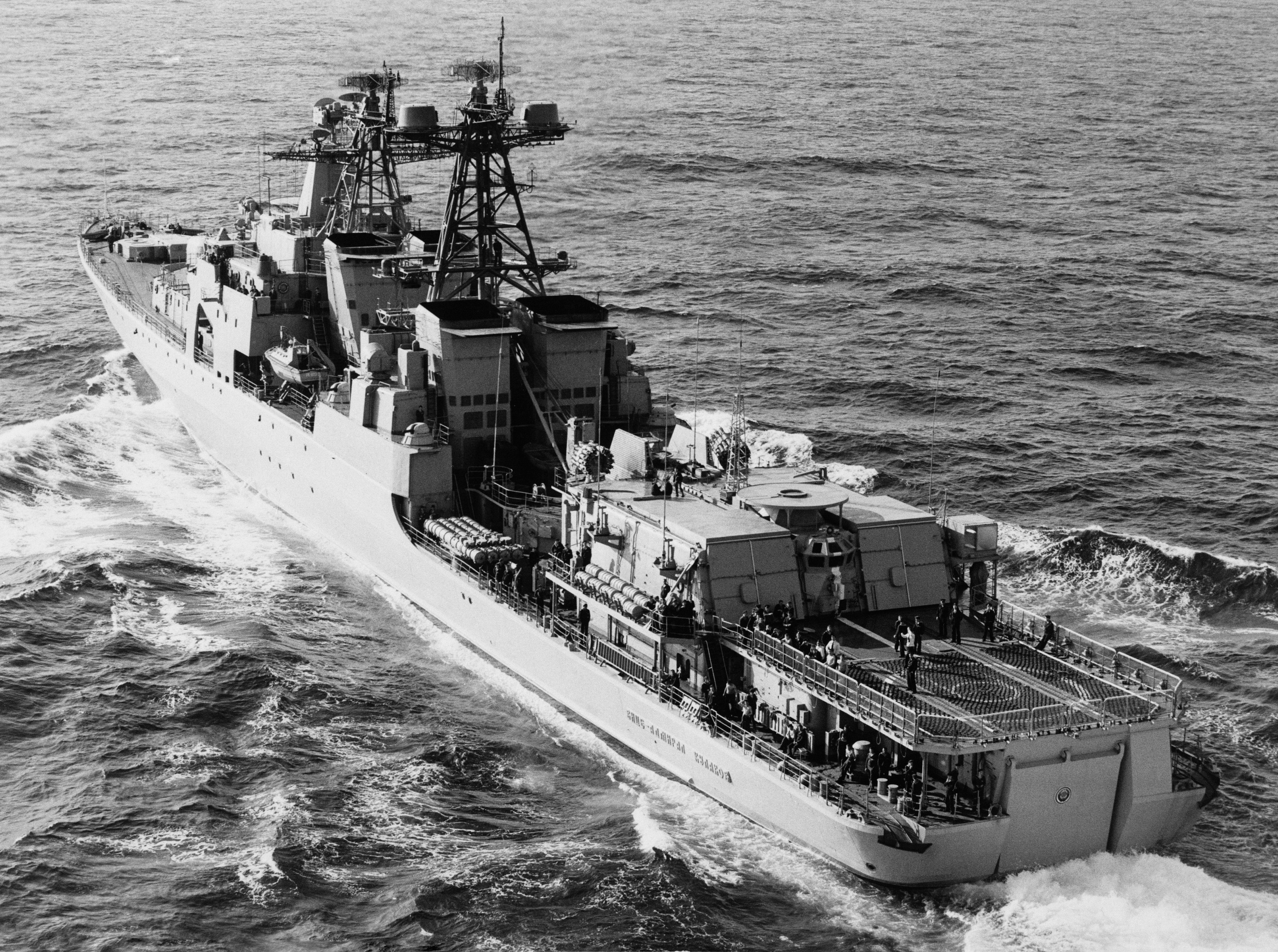 An aerial port quarter view of a Soviet Udaloy class guided missile destroyer VITSE ADMIRAL KULAKOV underway.